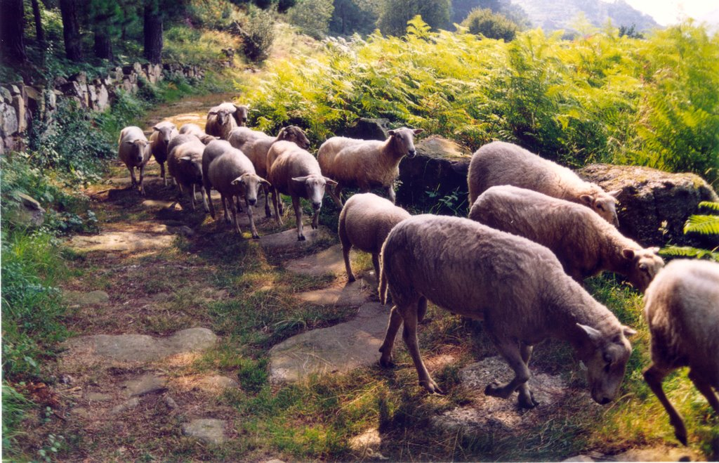 Sheeps over the roman road in Bárcena de Pie de Concha, (Cantabria). Montañés:: Uvejas ena cambera romana de Bárcena Pie de Concha, (Cantabria).